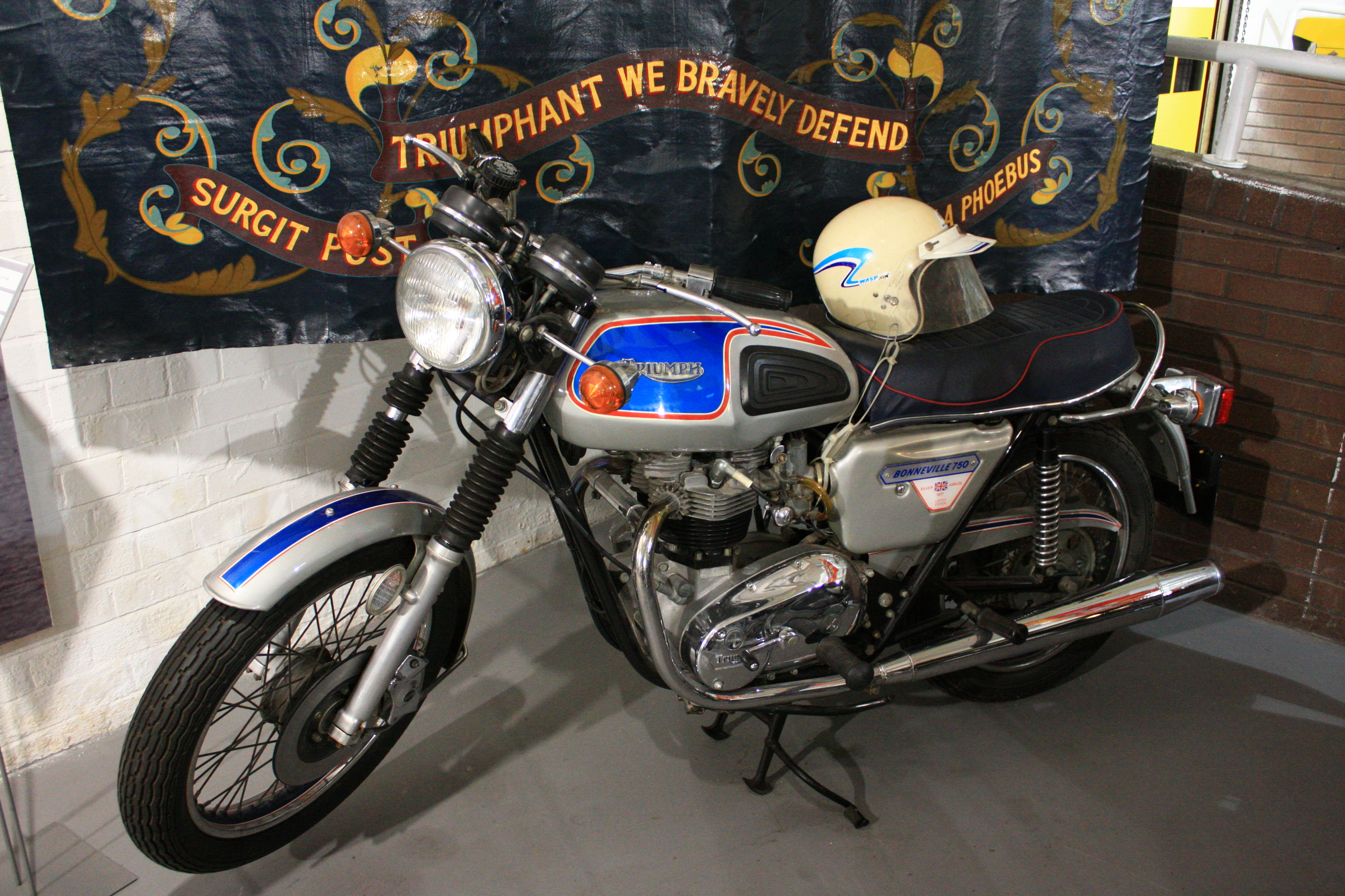 Engine: 744cc Top speed:111mph Price new: �1149 "This Triumph Bonneville is one of a special limited edition in celebration of Her Majesty The Queen's Silver Jubilee in 1977. When the Bonneville was first released in 1959, Triumph promoted it as: "the Bonneville T120 offers the highest available performance available today from a standard production motorcycle. This is the motorcycle for the really knowledgeable enthusiast who can appreciate and use the power provided." In the 1970s came management changes at the BSA Group and, more significantly, Japanese competition. In 1973, with the involvement of the British government, a new company was formed: Norton Villiers Triumph. Against the wishes of the workforce the company planned to move Triumph production from Meriden to the BSA factory in Birmingham. The Meriden workers staged a sit-in lasting almost two years. The situation was resolved in 1975 when a workers' co-operative was set up to manufature the Bonneville in 750cc form, primarily for the American market." Coventry Transport Museum, UK. 2009